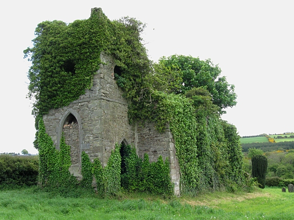 Ivy Clad Ruin. Ivy covered ruin of ancient church at Freneystown.